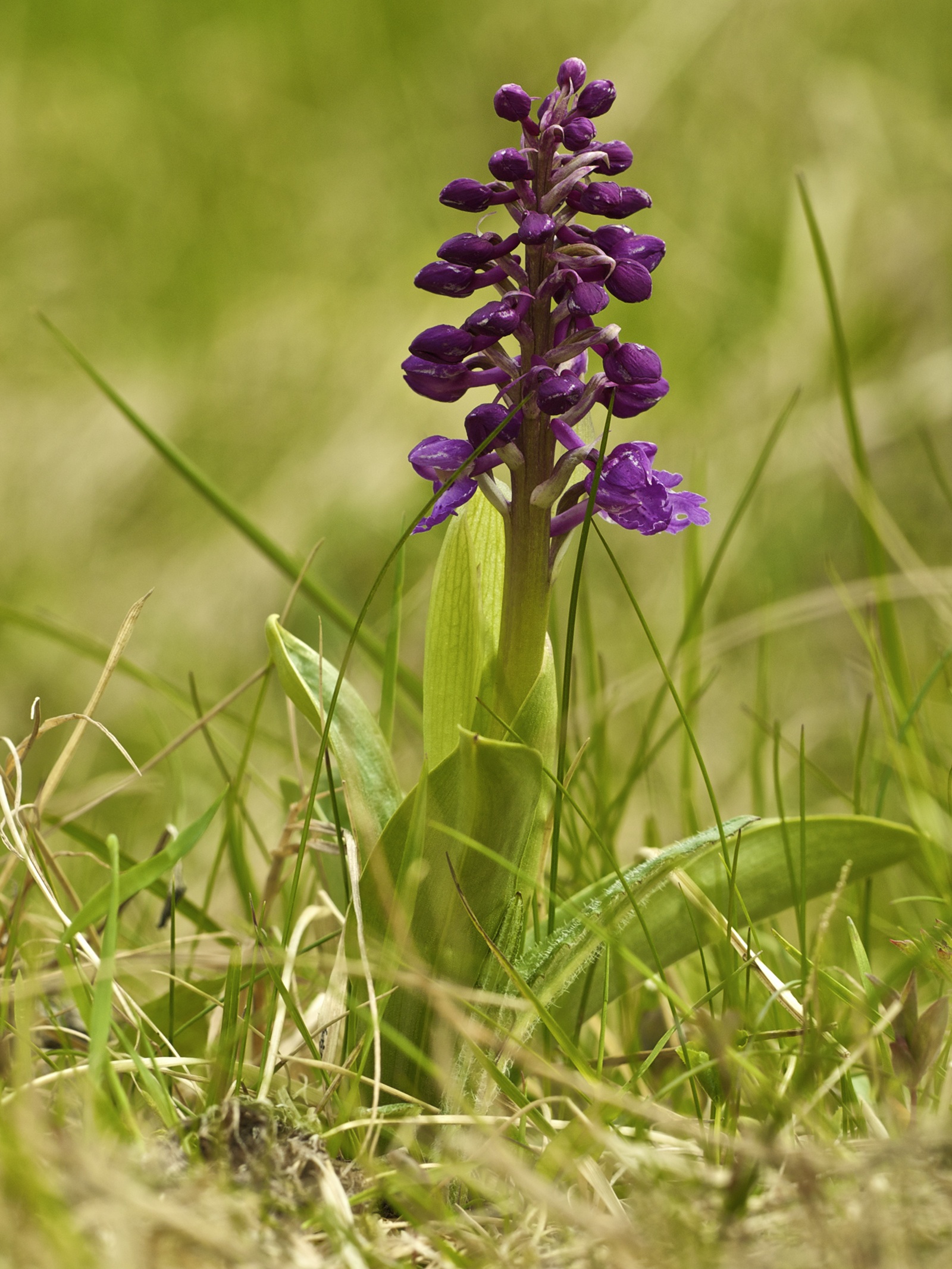 Early purple orchid (Orchis mascula), Lofoten, Norway